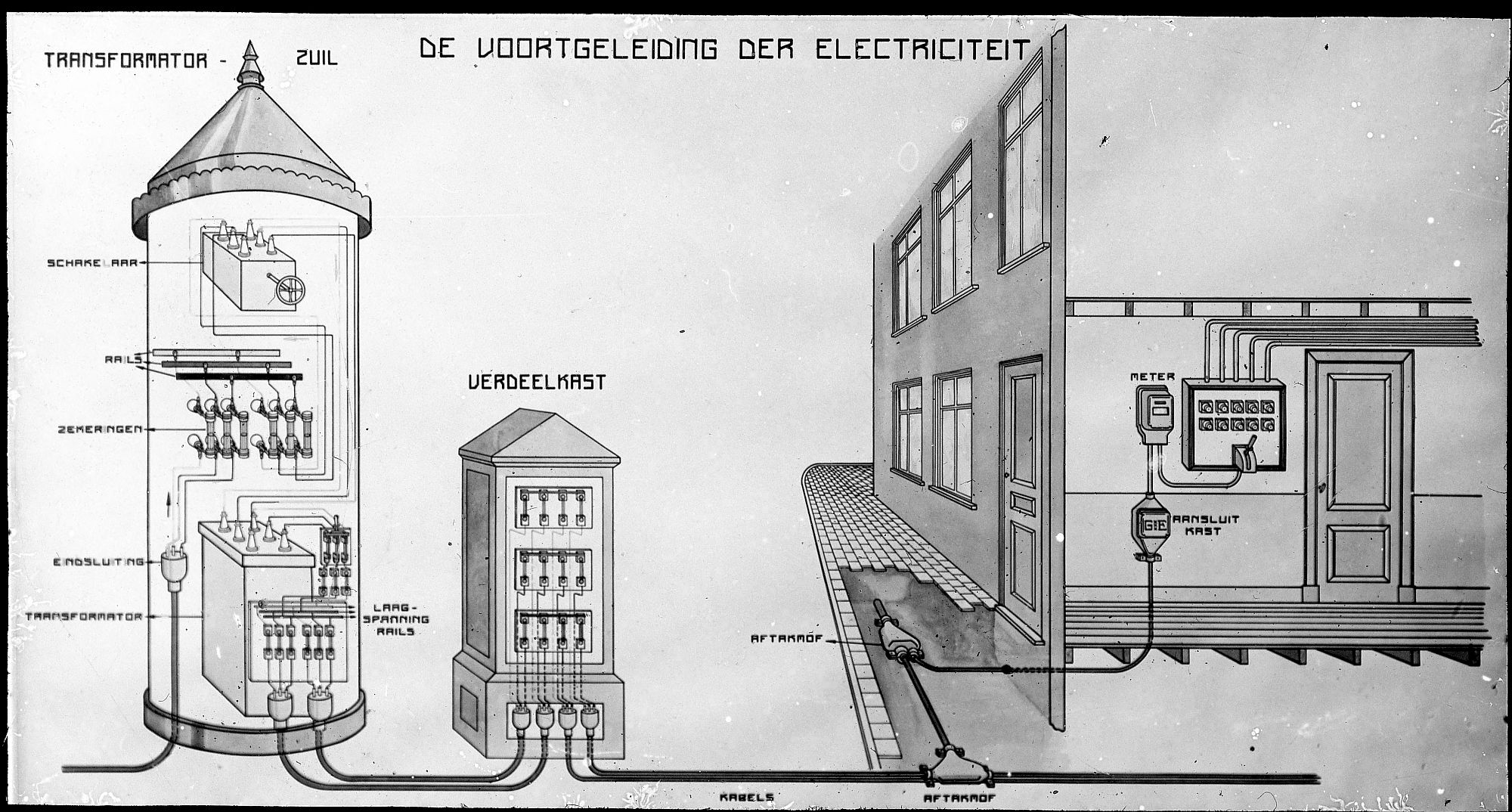 Transformatorzuilschema